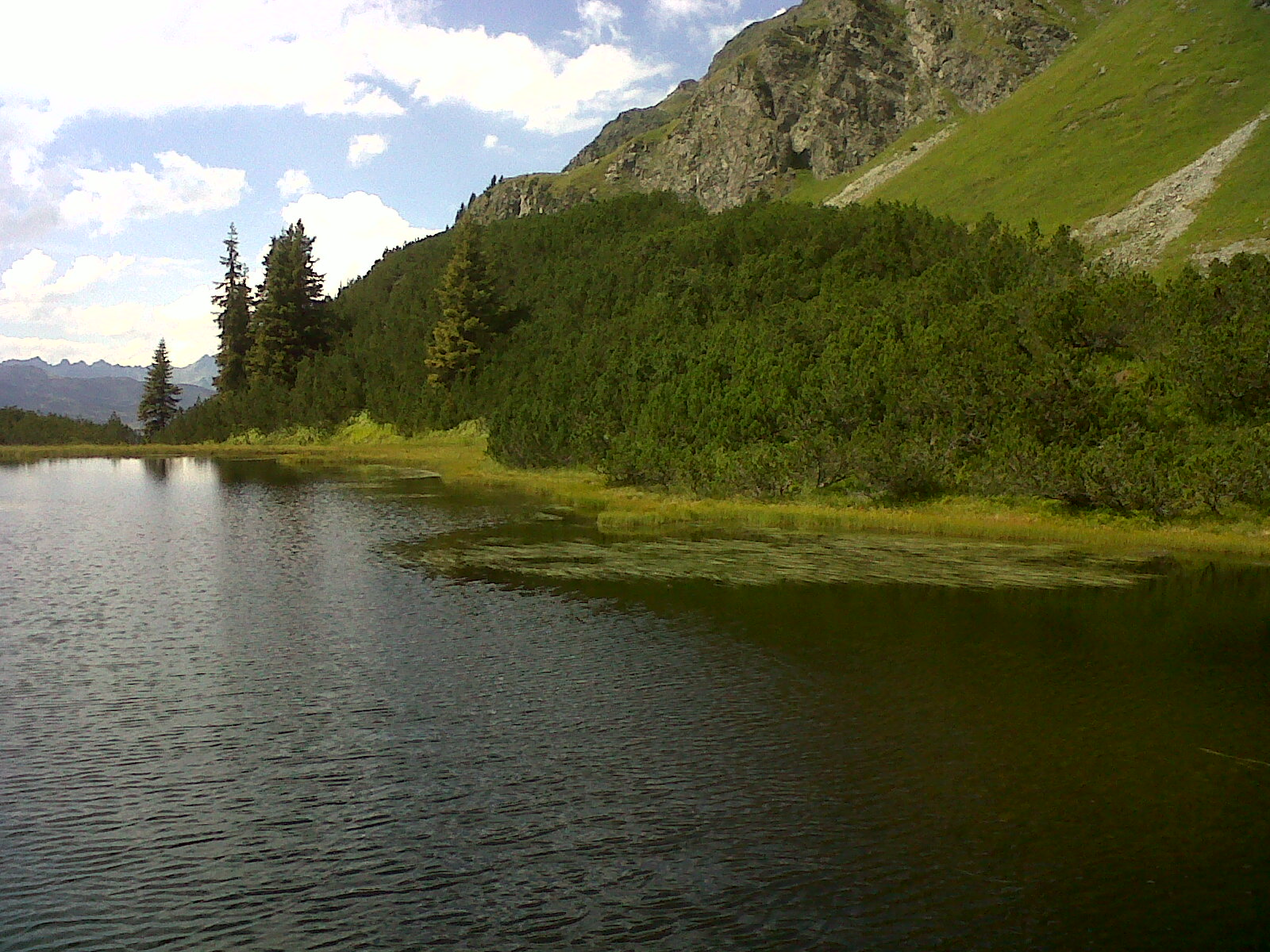 Austria - Vorarlberg - Bludenz district: Gaschurn: Wiegensee